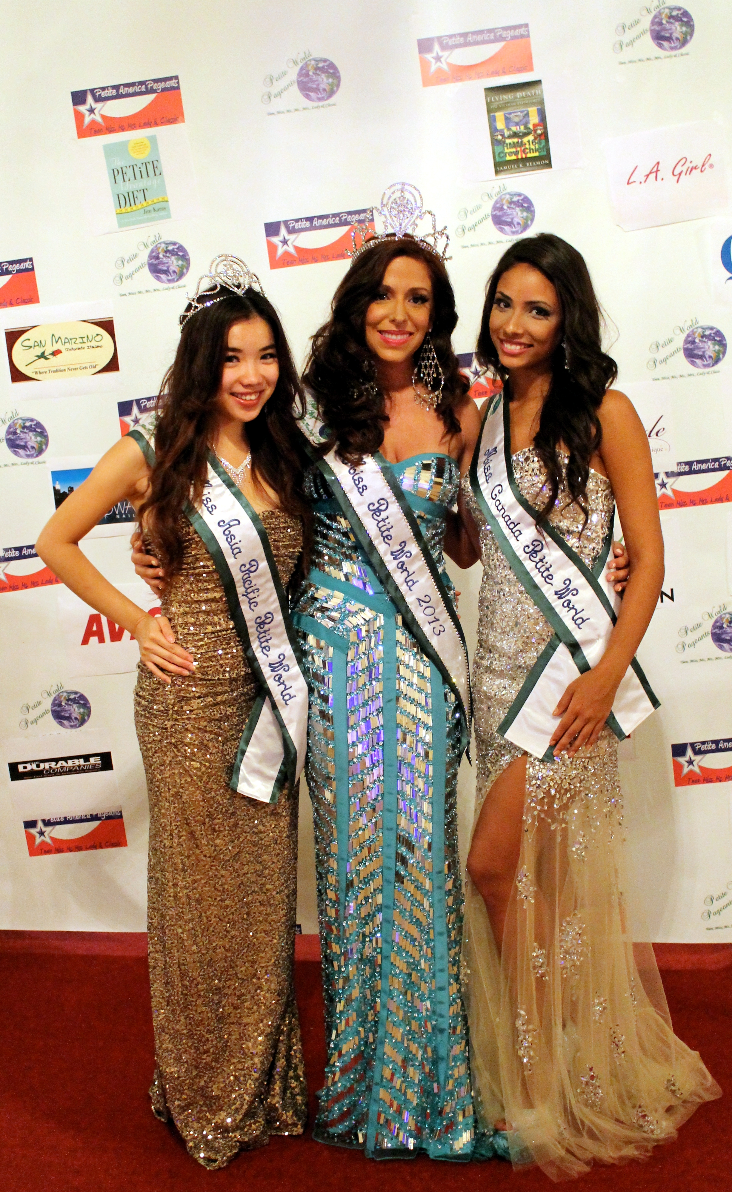 Miss Petite World